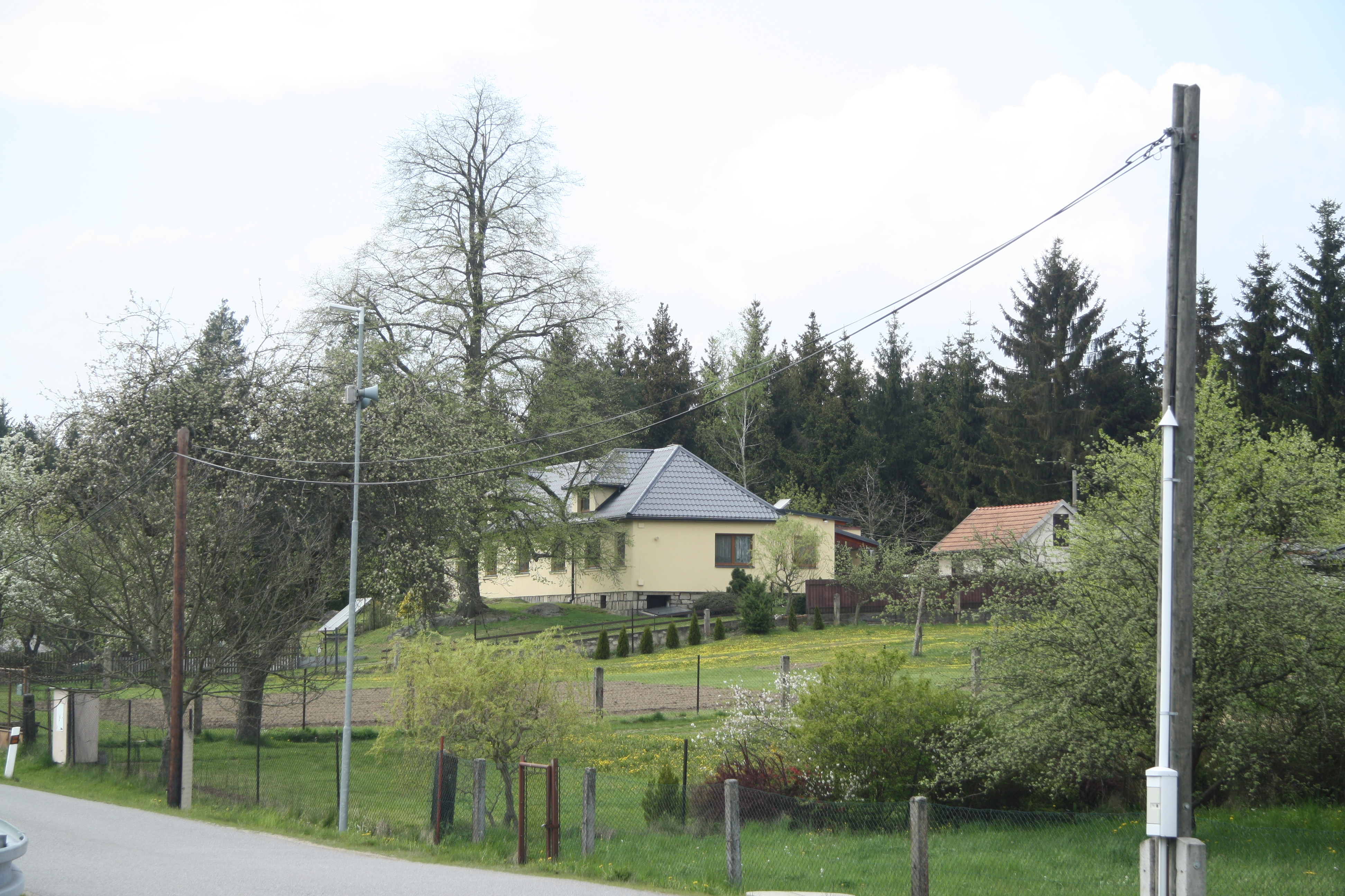 Overview of Ovčírna, Oslavička, Žďár nad Sázavou District.